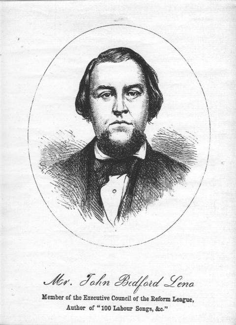 Coverpage of The Commonwealth newsletter 1866